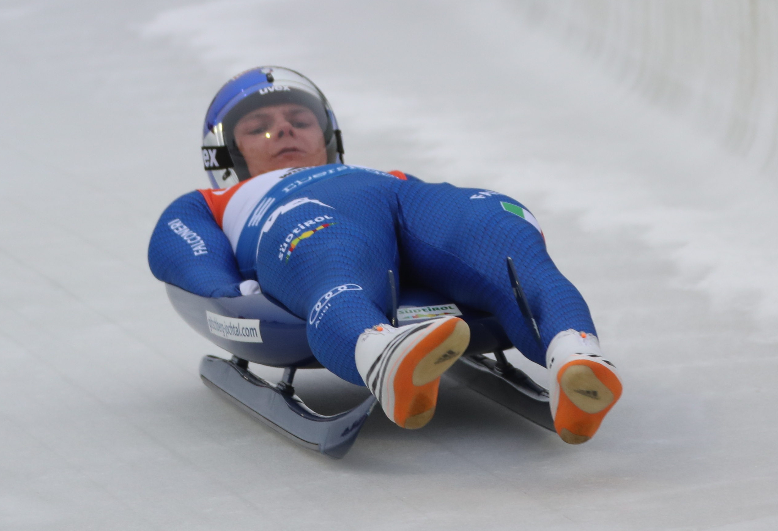 Luge World Cup Men in Winterberg